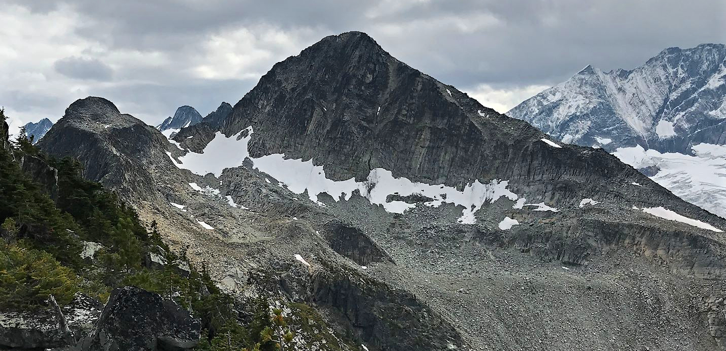 Mount Afton from Abbott Ridge